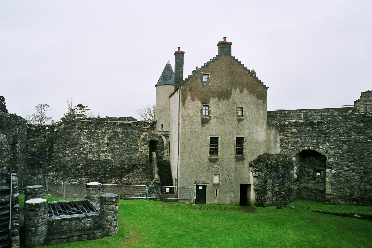 Interior view of Dunstaffnage Castle, near Oban, Scotland, showing the gatehouse.